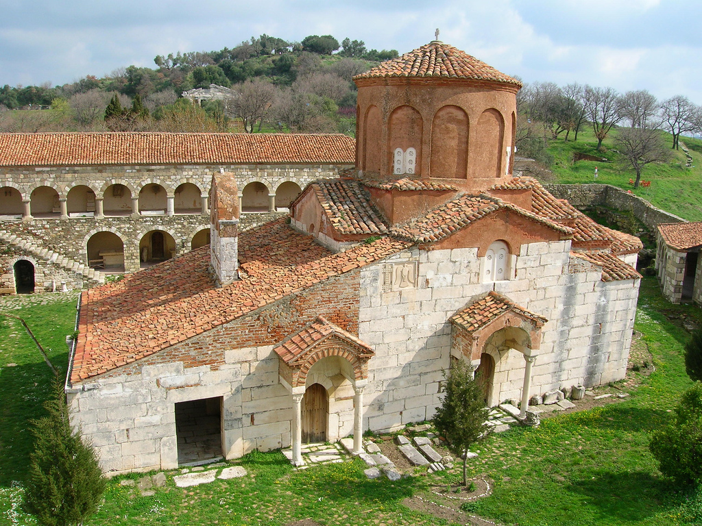 Church of Saint Mary in Apolonia (Albania)